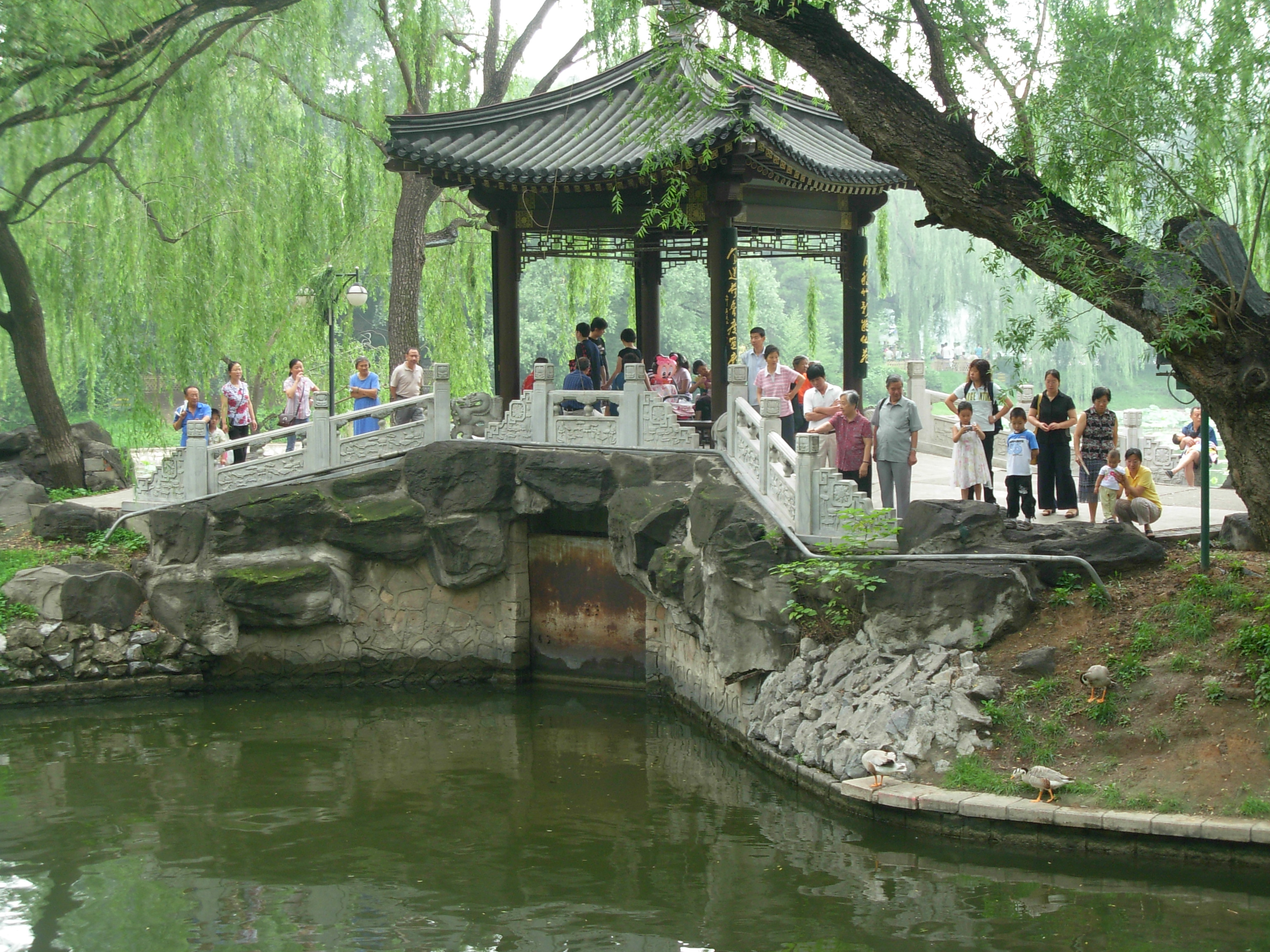 Purple Bamboo Park (Zizhuyuan), a mountain-water landscaped garden in Beijing